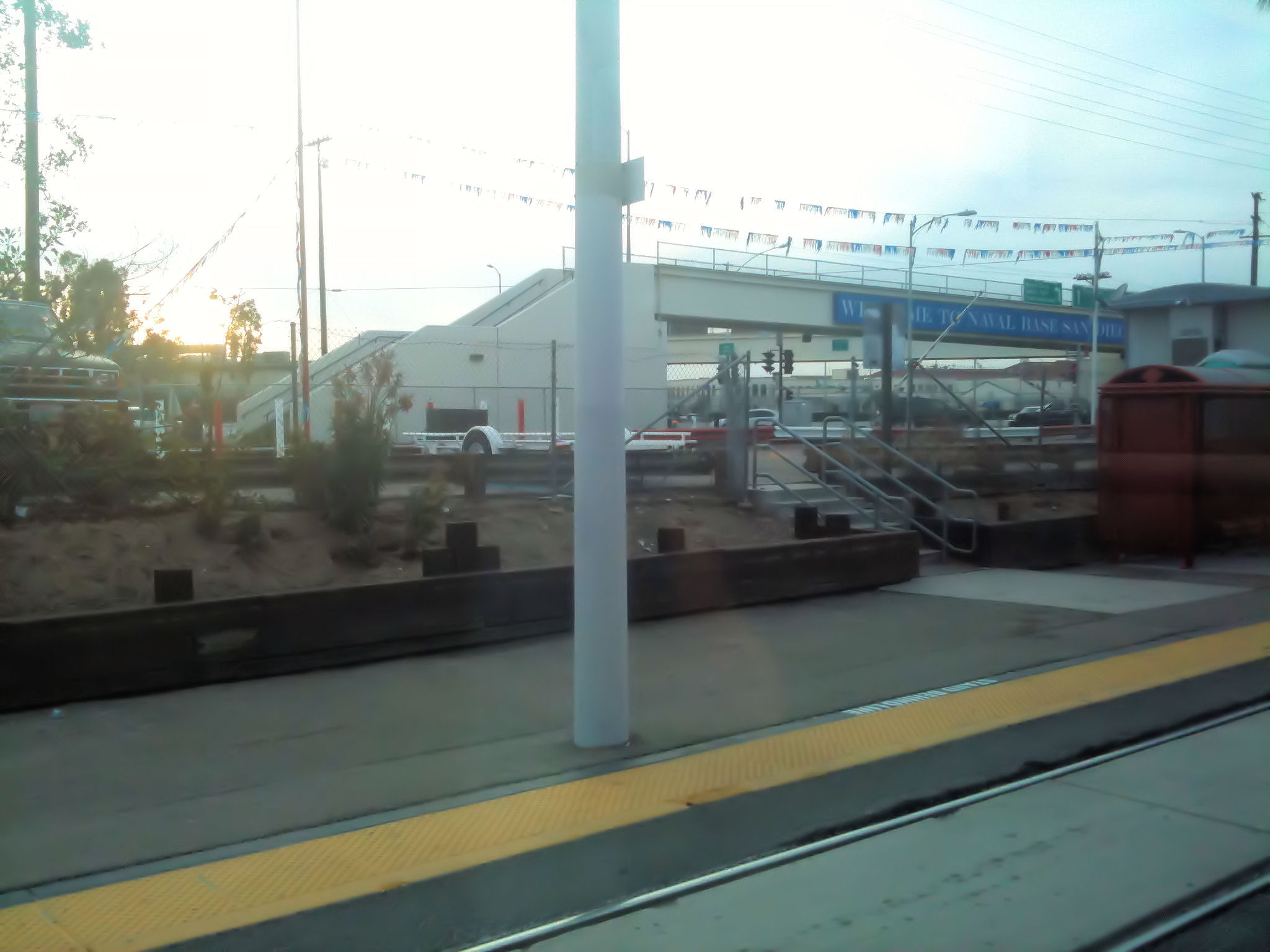 Pacific Fleet Trolley station